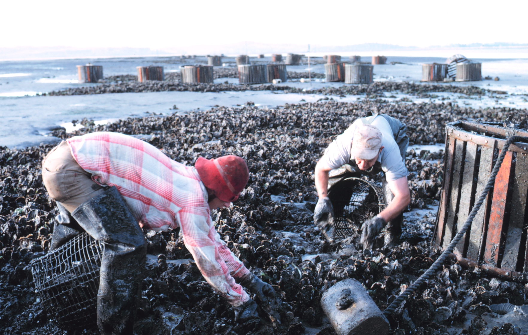 Picking oysters by hand at low tide, Willapa Bay, Washington, October 1969.Image ID: fish0744, NOAA's Fisheries Collection